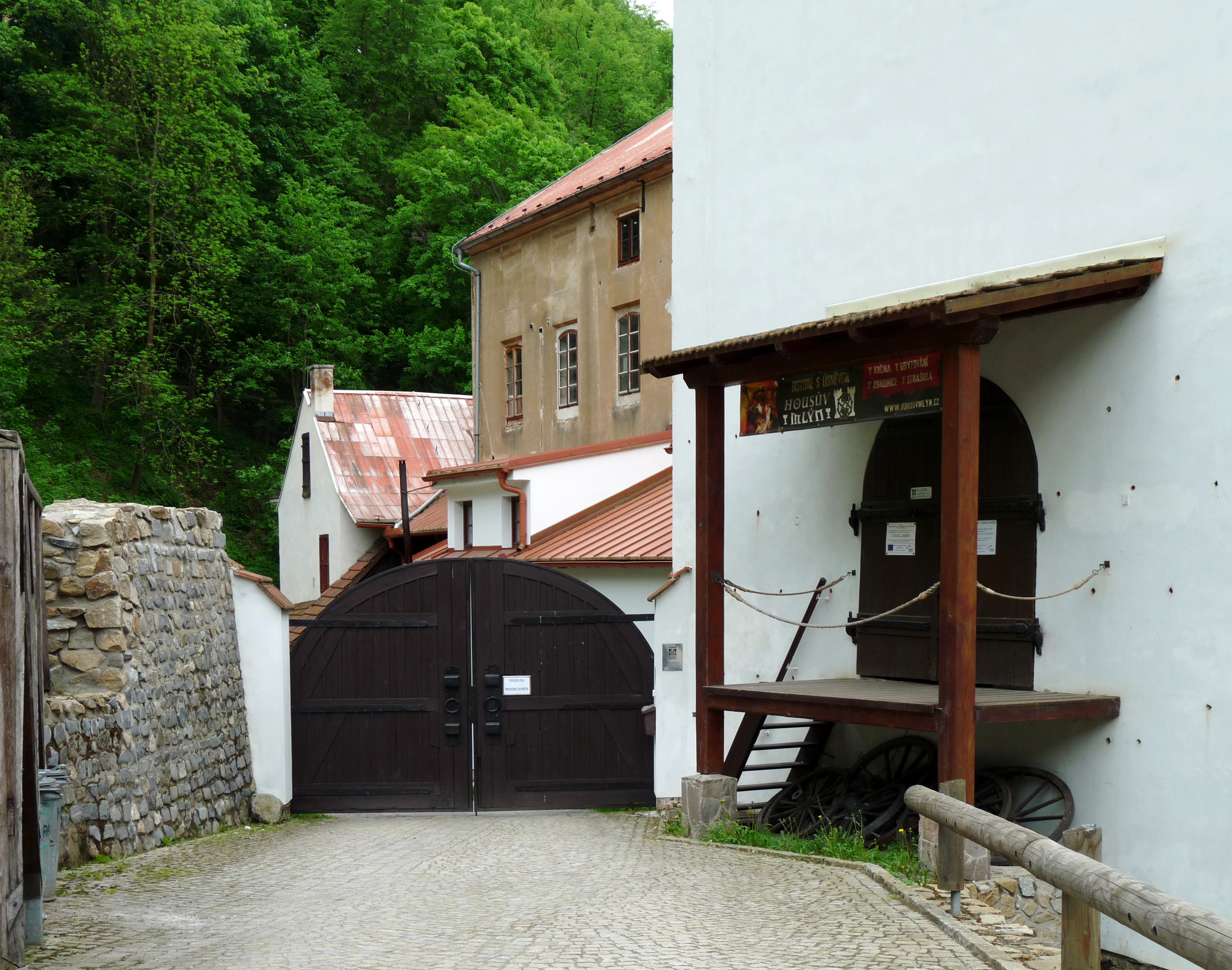 A former mill in the town of Tábor, South Bohemian Region, Czech Republic.